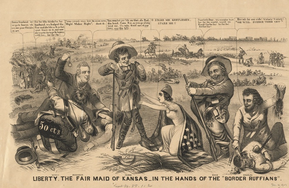 Liberty, the fair maid of Kansas in the hands of the border ruffians, ca1856.This cartoon "portrays the Democratic leaders as jovial and unscrupulous marauders. Robbery, murder and abduction (common occurrences during the struggle between free-soil and pro-slavery advocates in the new states) are laid to Pierce, Buchanan, Cass, Marcy and Douglas. The cheefulness with which these men supported measures leading to such crimes are forcibly emphasized by the cartoonist in depicting them as actual outlaws." Massachusetts Digital Commonwealth